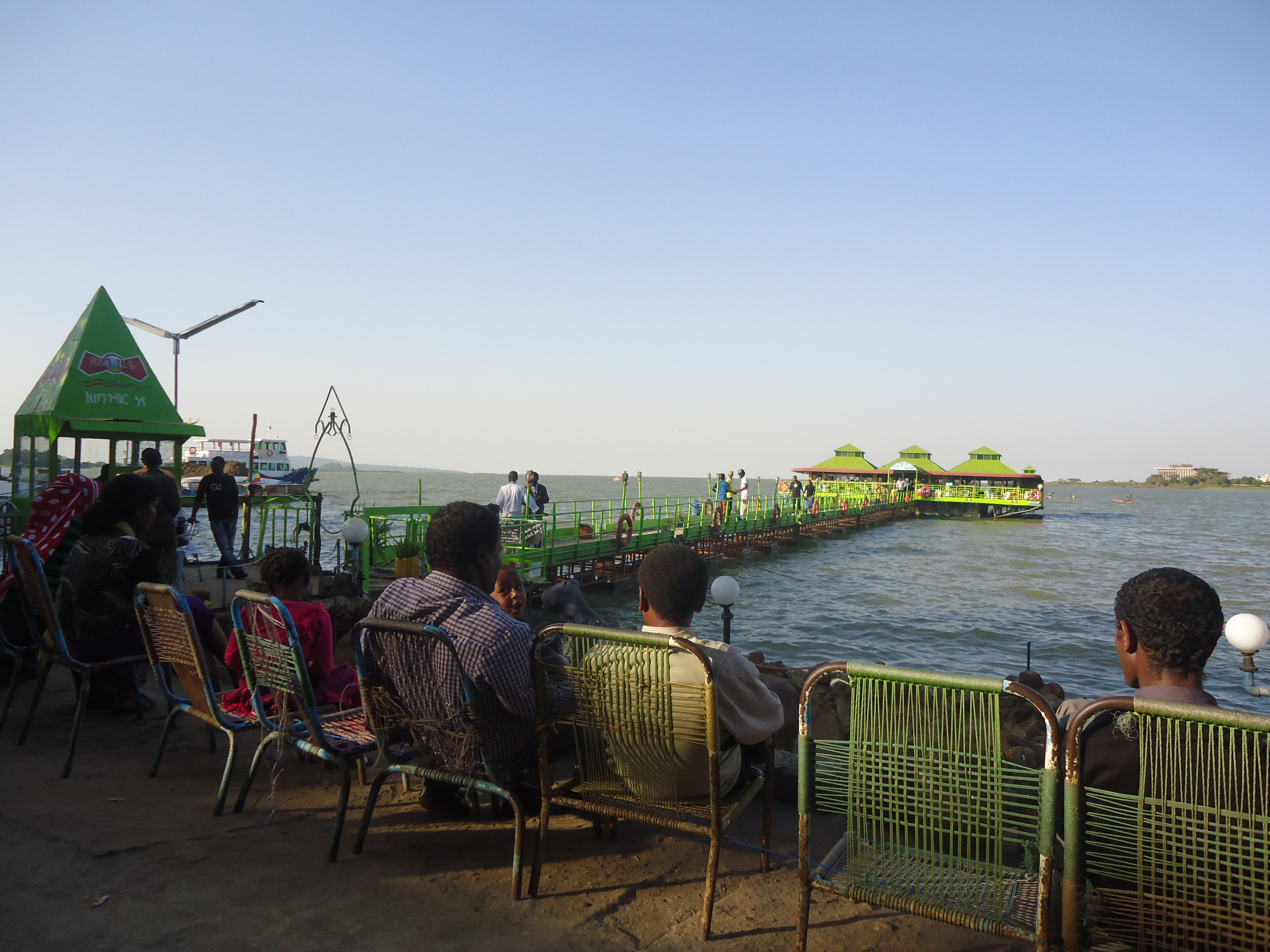 Baher Dar: Cafe at Tana Sea Beach. Bar on pontons.